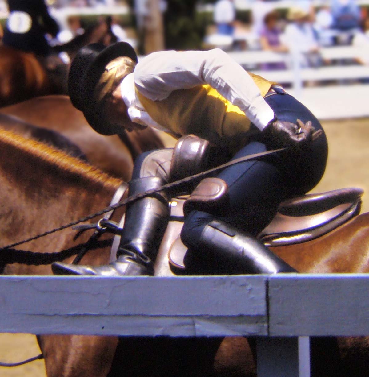 A sidesaddle rider adjusts her girth in the warm-up ring (hence the reason she is not wearing her apron or coat) at the 1986 Devon Horse Show in Devon, PA, USA.